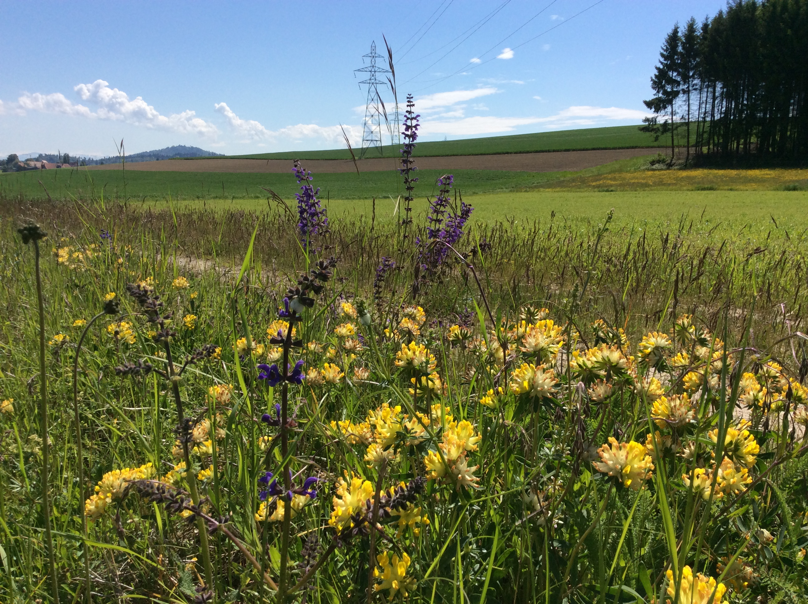 Salvia pratensis and Anthyllis vulneraria at a wayside near Brünnen/Westside, Bern, Switzerland